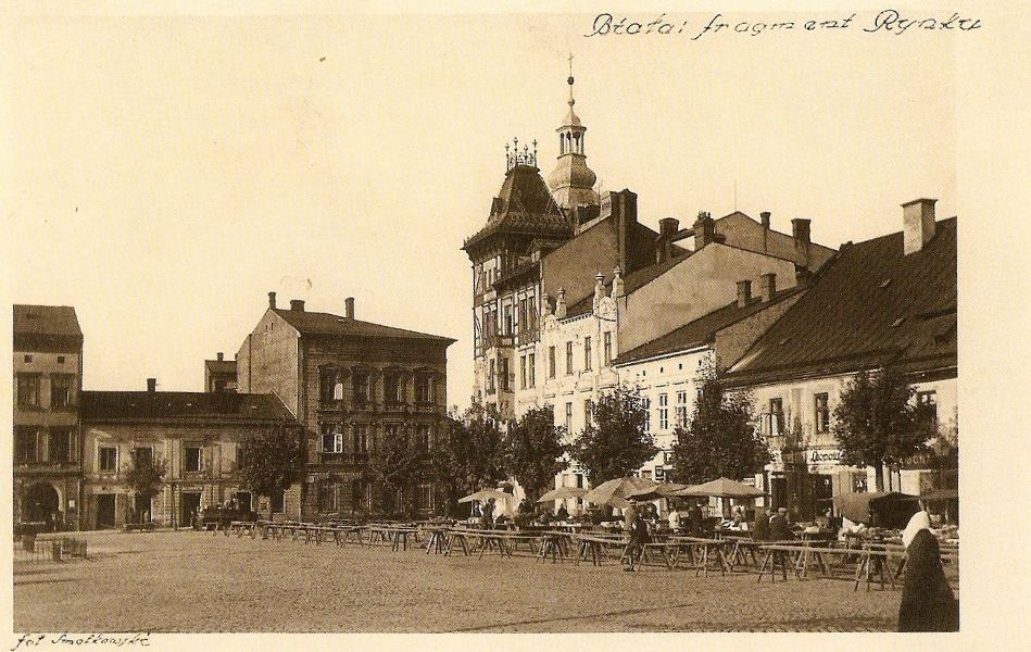 Bielsko-Biała, Poland. Wojska Polskiego Square in 1933.